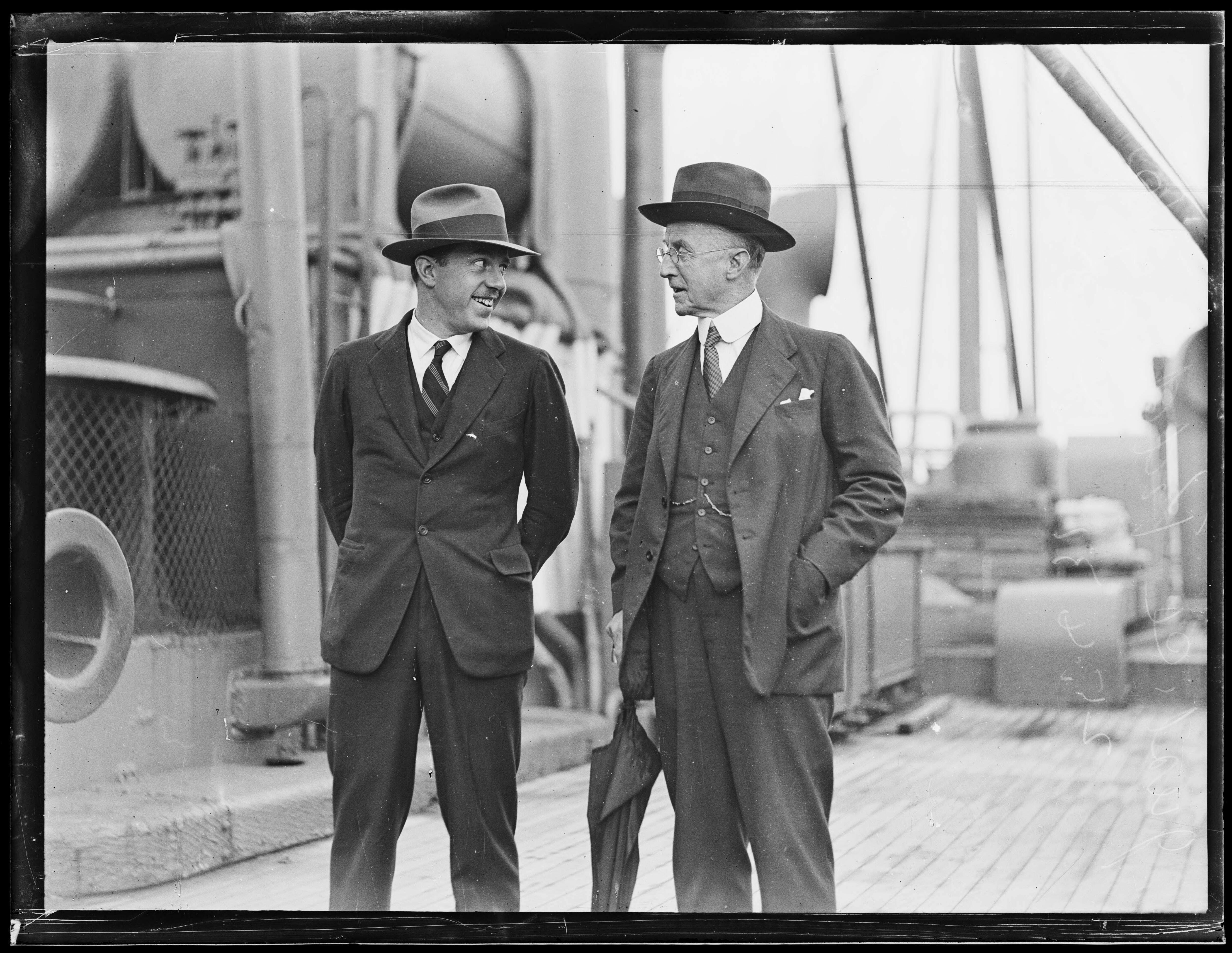 Ralph Piddington and his father Australian judge Albert Piddington aboard the RMS Niagara